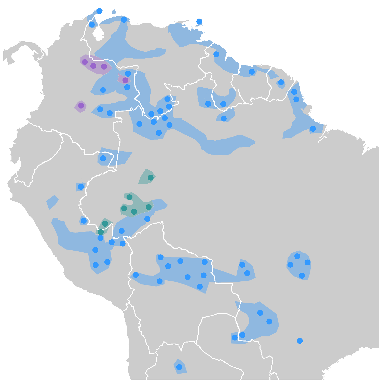 Proper Arawak Languages (Maipurean) (blue), Arawan Languages (green), Wahiboan languages (violet). Documented locations languages at present are signaled by spots, and approximate early probable areas are shadowed. Based on data of Alexandra Y. Aikhenvald "The Arawak Languages" in The Amazonian Languages, Dixon & Alexandra Y. Aikhenvald (eds.), Cambridge: Cambridge University Press, 1999. p. 65-106., p. 292-306 & p.